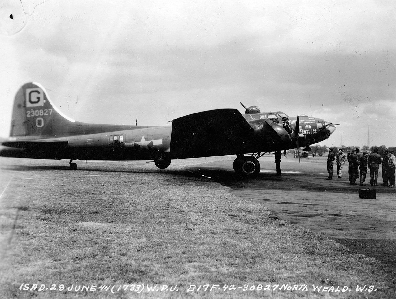 A B-17F Flying Fortress (serial number 42-30827 "Roundtrip Ticket III") of the 385th Bomb Group at North Weald, 28 June 1944. Official caption on image: "ISAD - 28 June 44 (1733) - W.P.U. B-17F - 42-30827 - North Weald W.S." Handwritten caption on reverse: 'Yellow Doris over door, Yellow 'Maybel' cockpit. Black Square G? Name on inner cowl, appears to be " a". Bombs yellow, name yellow. ? black on white.'